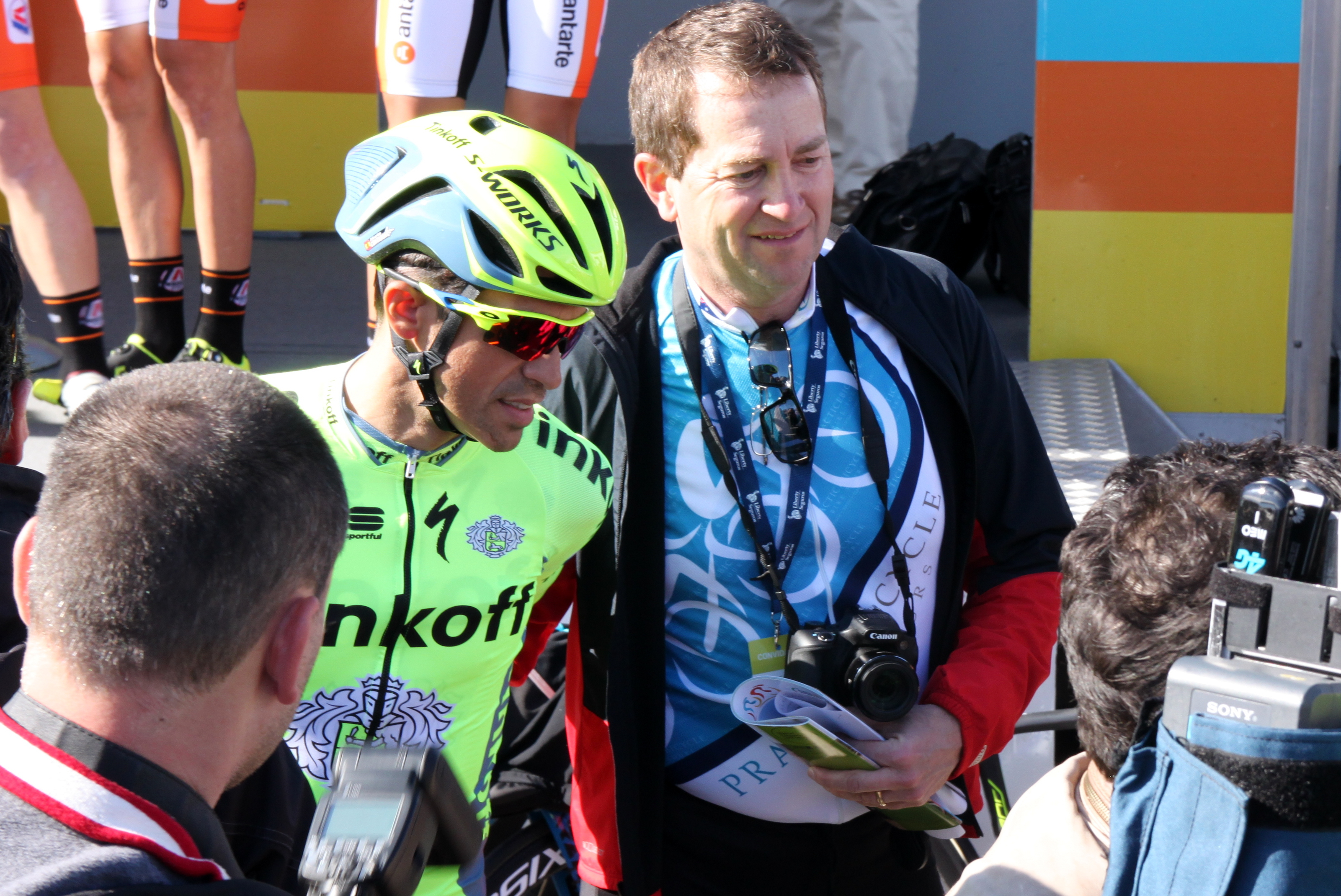 Portugal - Algarve - Lagos - 2016 Volta ao Algarve - Contador interview. Depicted person: Alberto Contador Depicted team: Tinkoff